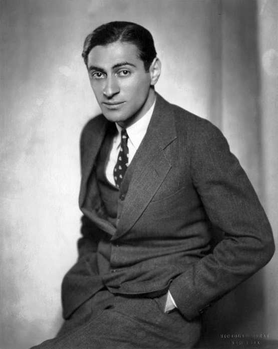 Photograph of Jed Harris from the cover of Time magazine, Volume 12 Issue 10. Time failed to renew the copyrights of many early issues; see wikisource:Time (magazine).